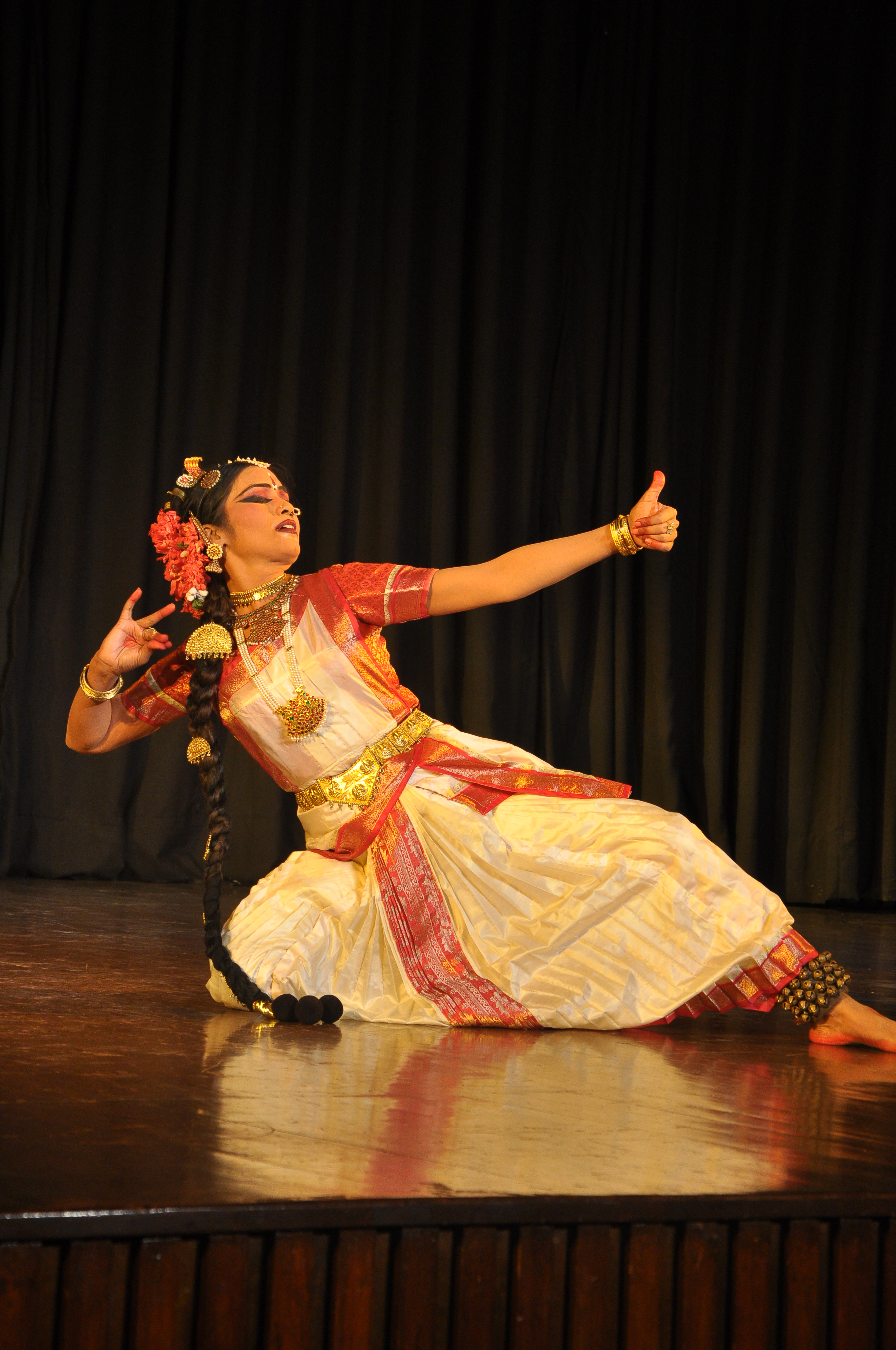 Meenu Thakur